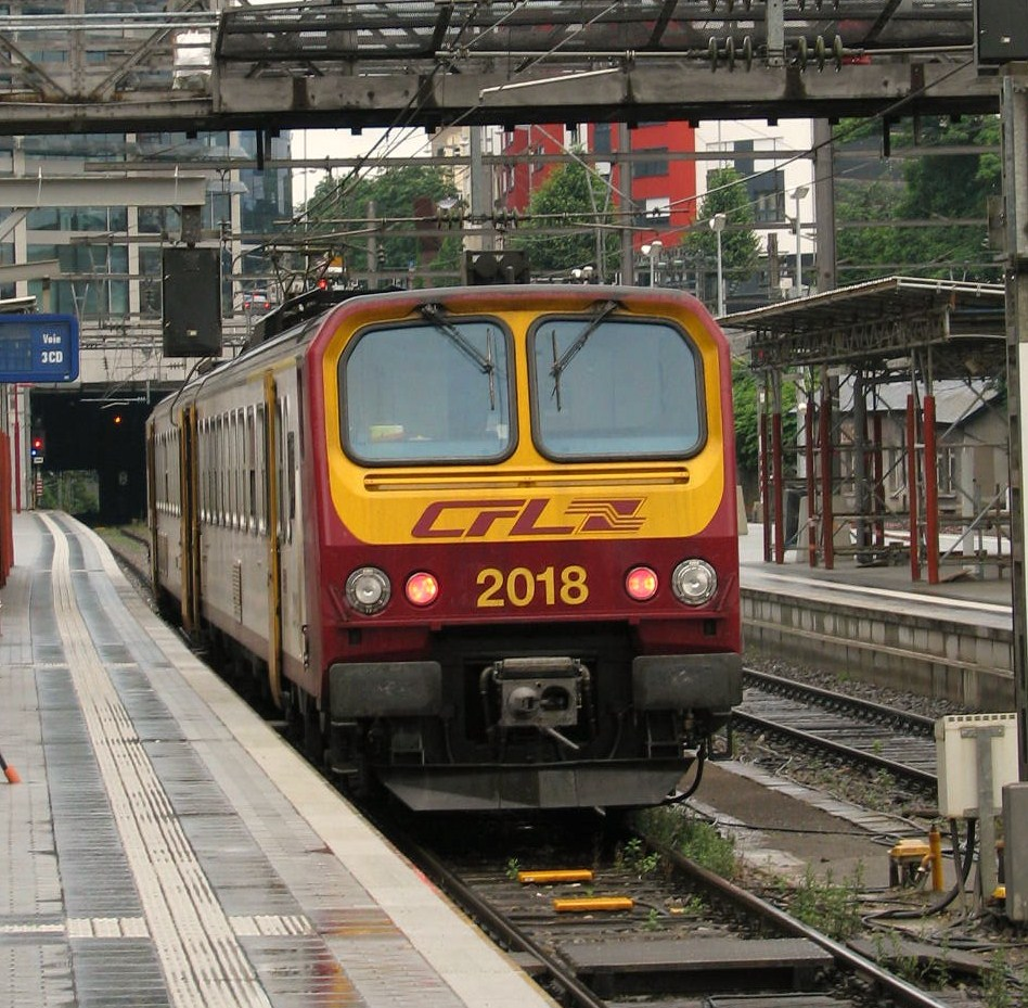 Luxembourg railway station